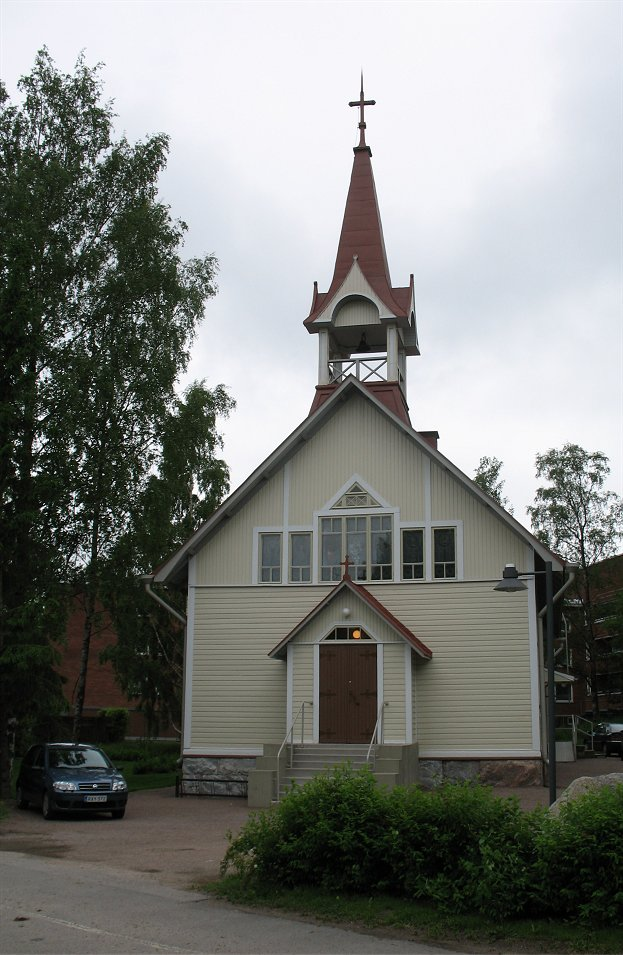 Oulunkylä old church in Oulunkylä, Helsinki, Finland. This was originally constructed as a chapel (prayerhouse) in 1905, later being taken in church use. This wooden church burned partly in 1978, but was then repared.